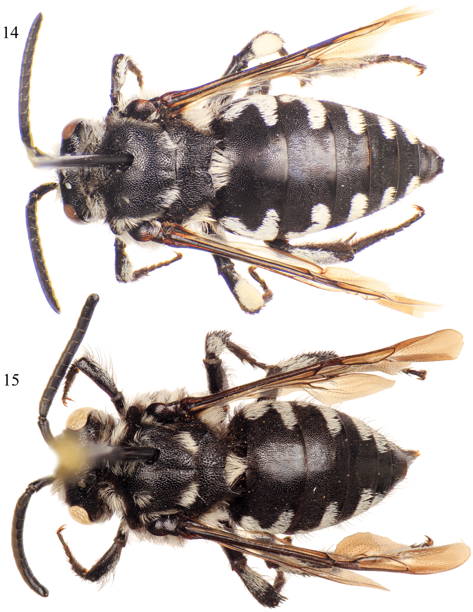 Dorsal habitus of Thyreus batelkai sp. n. from Santo Antão. 14 Male 15 Female.